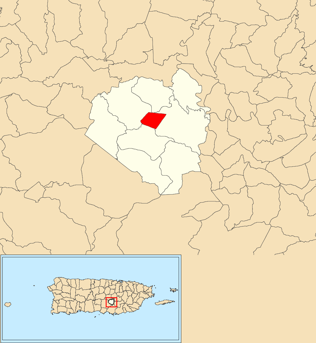 Aibonito barrio-pueblo, Aibonito, Puerto Rico locator map